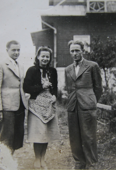 Józef Stanek (right), Antonina Małasińska (center) and Zbigniew Pajor (left) in Dursztyn